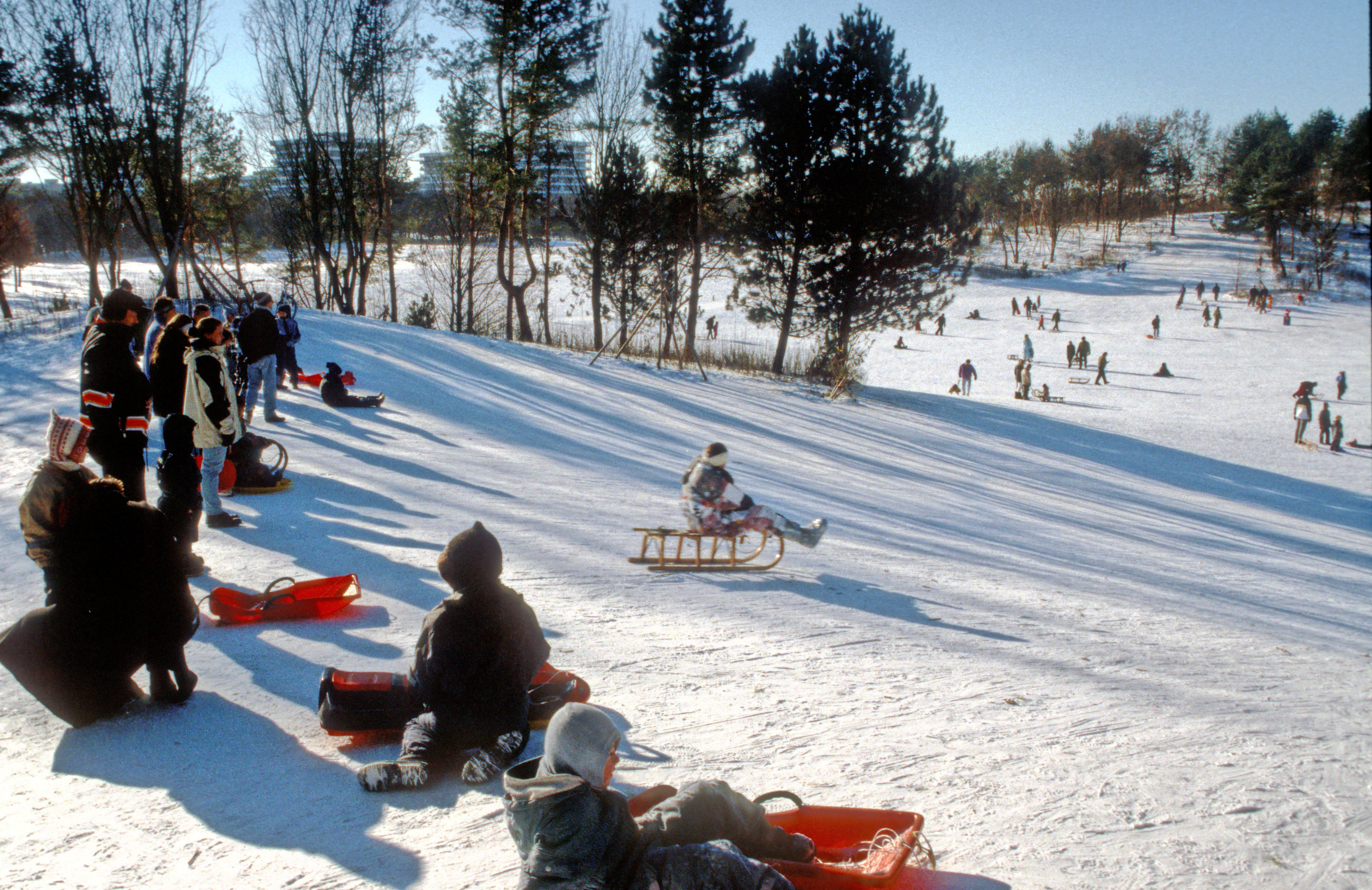 Toboganning in the Ost Park II (circa 2003)